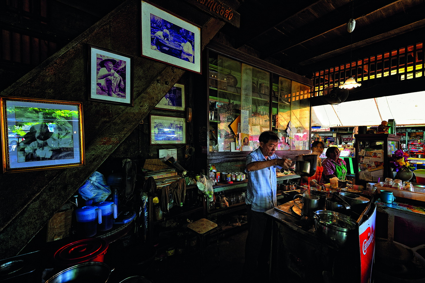 The market is located in Samchuk district. It is a old market with almost 100 years old. Started from a small community and became the market of the district in 1917. In the past decade, the market was publicized with a slogan “Lively Market, Living Museum”. The community museum is at “Ban Khun Chumnong Jeenaruk” or Mr.Hui Sae Heng, a Chinese man born in Suphanburi in the reign of King Rama VII. At the entrance of the market, there is a big red postbox that is in a Victorian crowned-shaped. There is shrine of Samchuk city god or “Jea Pung Toa Kong” inside the market, which was built in 1924. Presently, the surrounding area still features traditional ways of living and old wooden buildings. Food and desserts, as well as other products, offered here are entirely from genuine attention, not from imitation, to foster such a long and distinguished culture. The famous food are fish sausage, nougat, soybean pudding and fish ball noodle soup. In 2009, UNESCO declared the market “the Award of Merit” a world heritage site in the category: Asia-Pacific Heritage Awards for Culture Heritage Conservation.